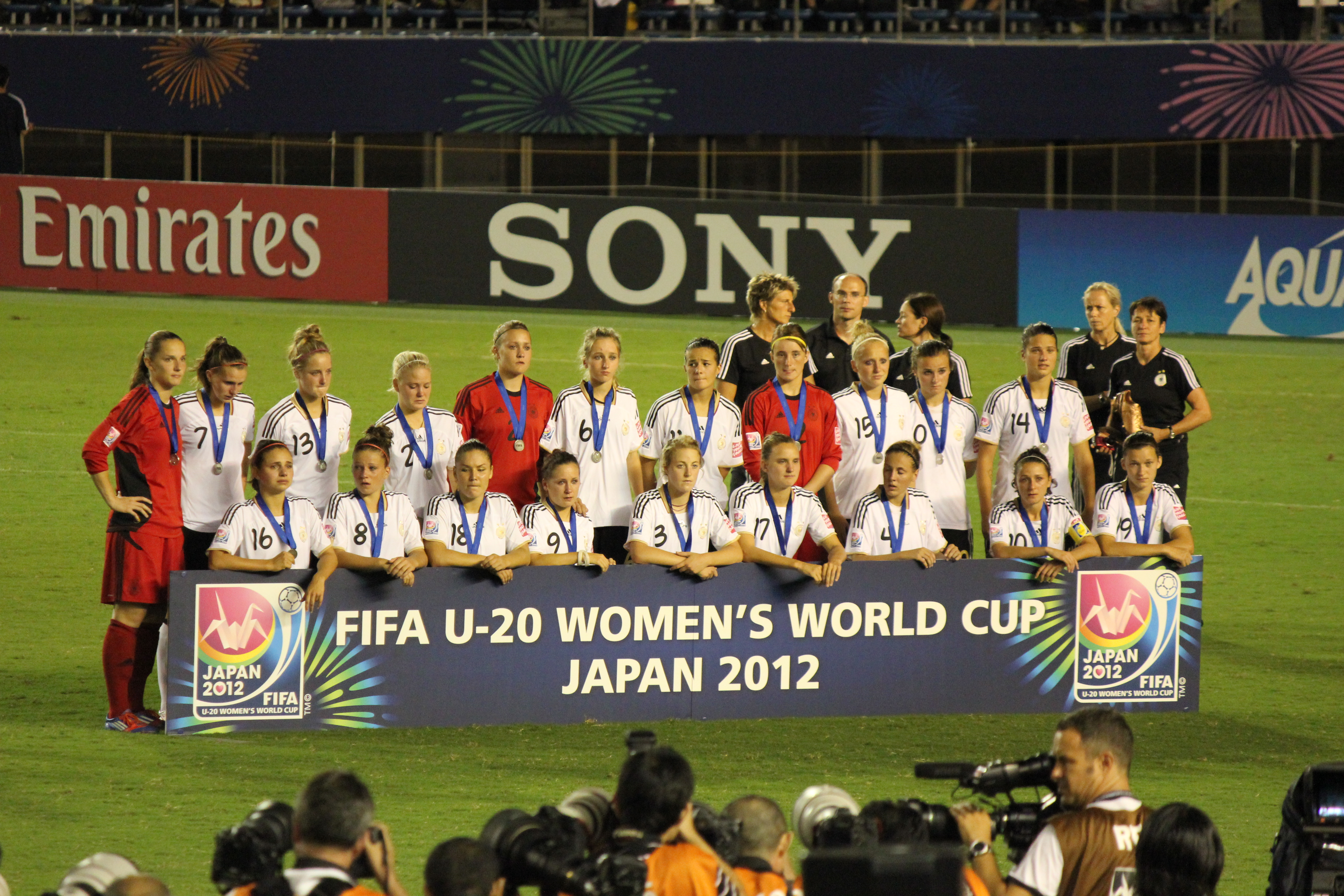 Germany national Team (FIFA U20 WIMEN'S WORLD CUP JAPAN 2012)